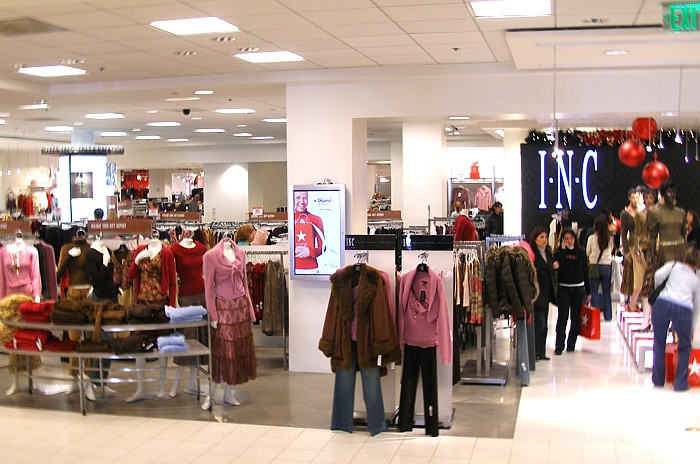 Interior of a typical department store. This is the INC section of the West Coast flagship store of the Macy's department store chain in San Francisco. INC is a Macy's in-house apparel brand. Note the use of large color plasma flat screen televisions on some columns as a substitute for full-color posters. Photographed on December 2, 2005 by user Coolcaesar.